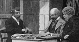 Detail of a frame from Entrevue de Dreyfus et de sa femme (prison de Rennes), an installment of Georges Méliès's L'affaire Dreyfus series (1899). This detail shows Méliès, at left, as Fernand Labori. Cropped by the uploader, who licenses the cropped version as PD.